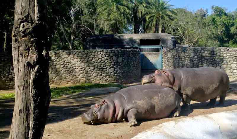 hippo